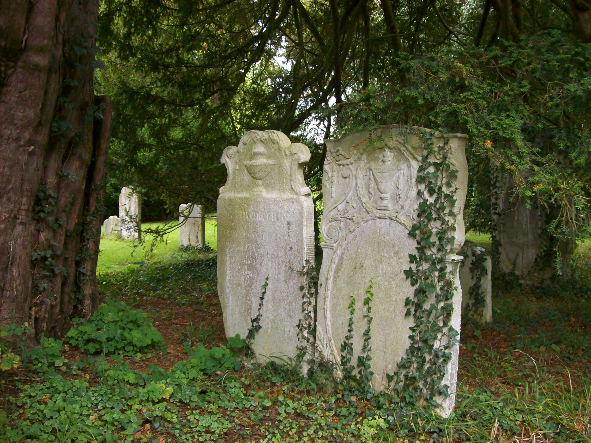 The Churchyard, Stoke Poges